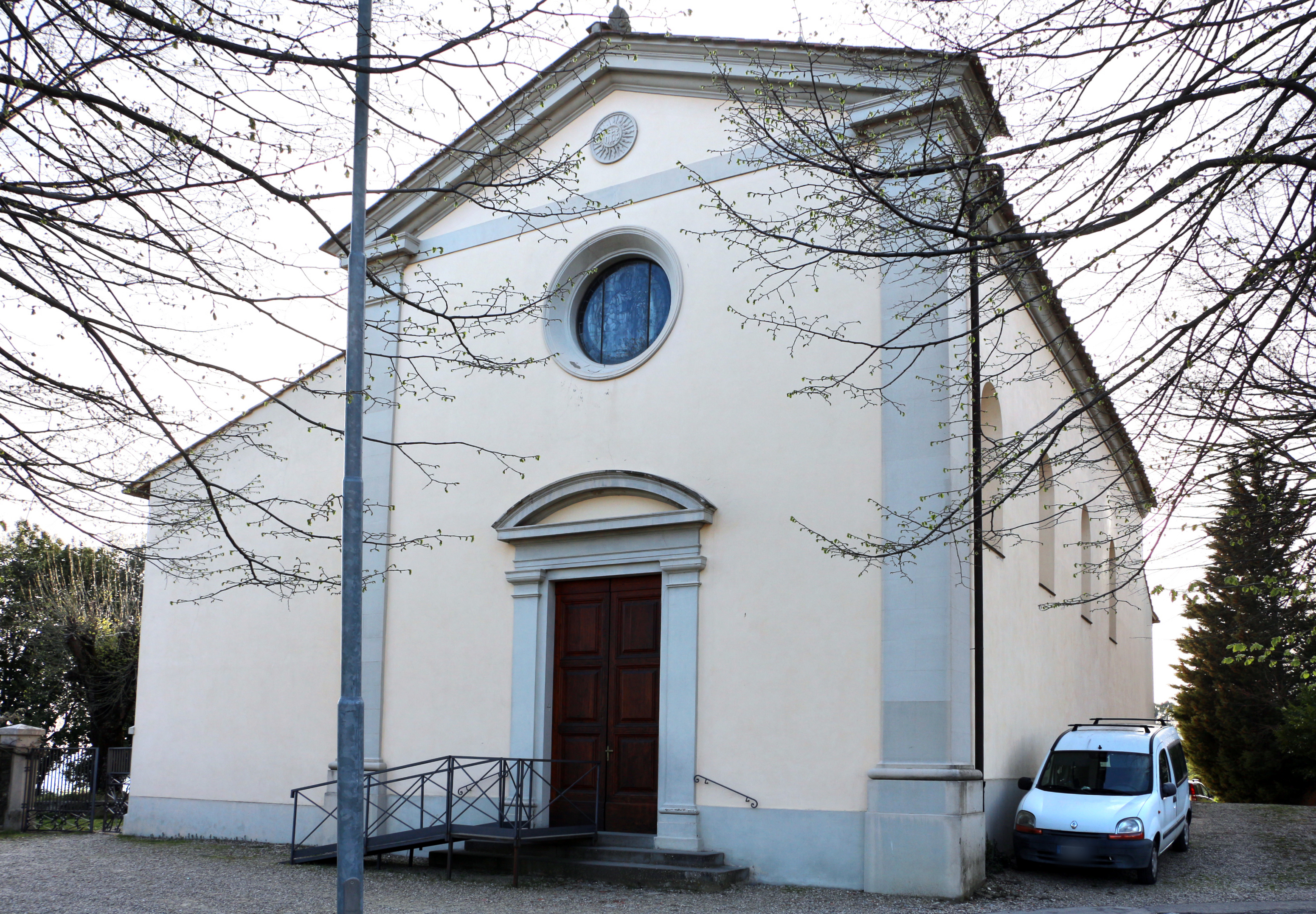 San Lorenzo a Diacceto